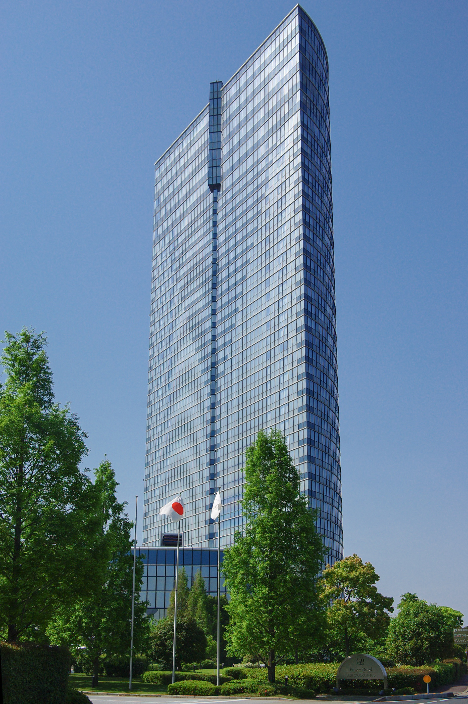 Photograph of the southeast view of Otsu Prince Hotel in Otsu, Shiga Prefecture, Japan.